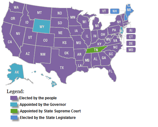 Comparison of state attorney generals; elected vs. appointed